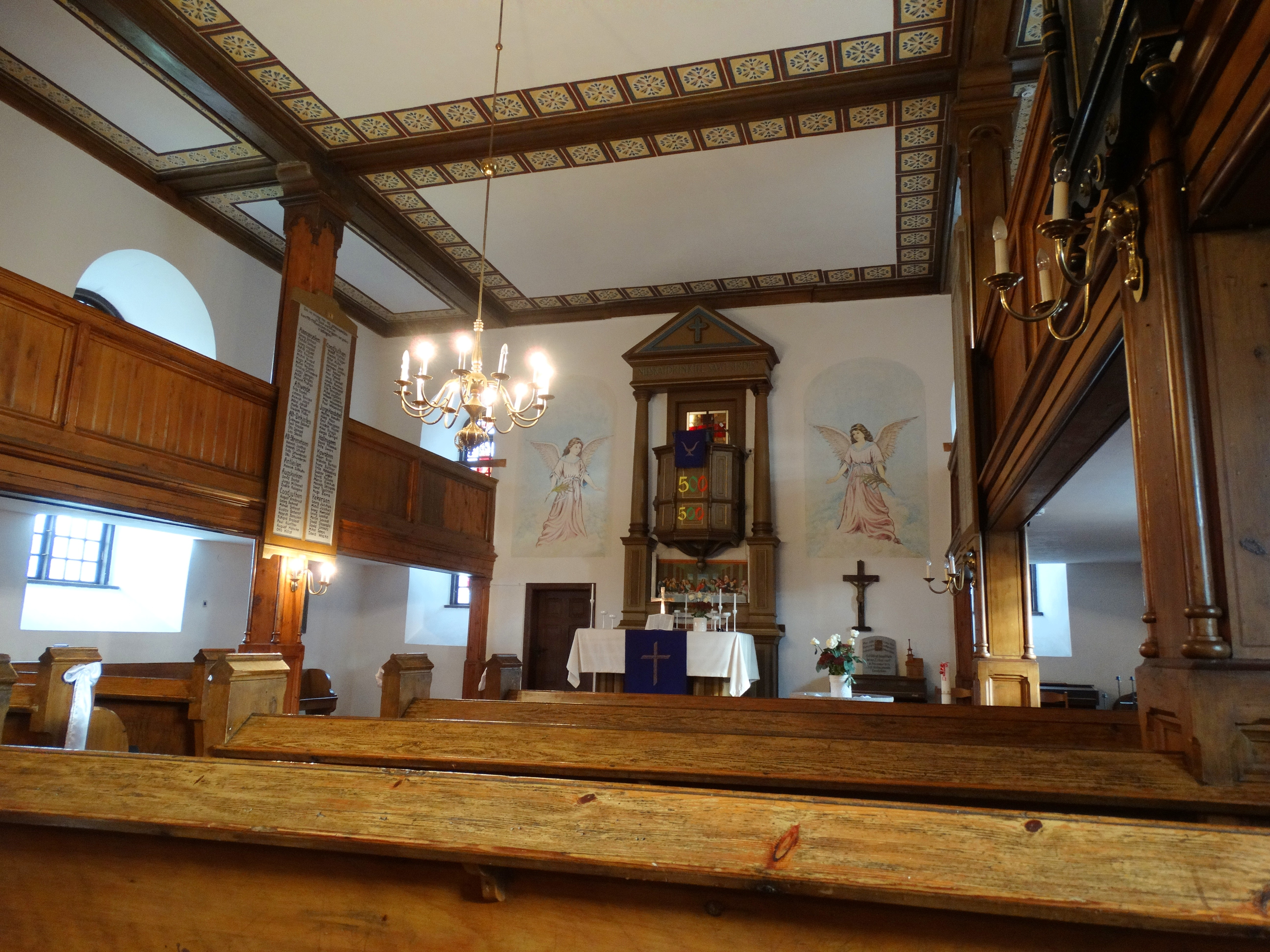 Interior, Lutheran Church, Katyčiai, Šilutė district, Lithuania